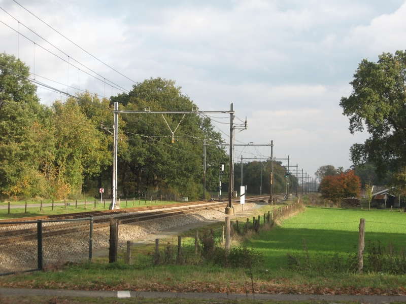 Almelo-Salzbergen railway line near De Lutte, Overijssel, the Netherlands